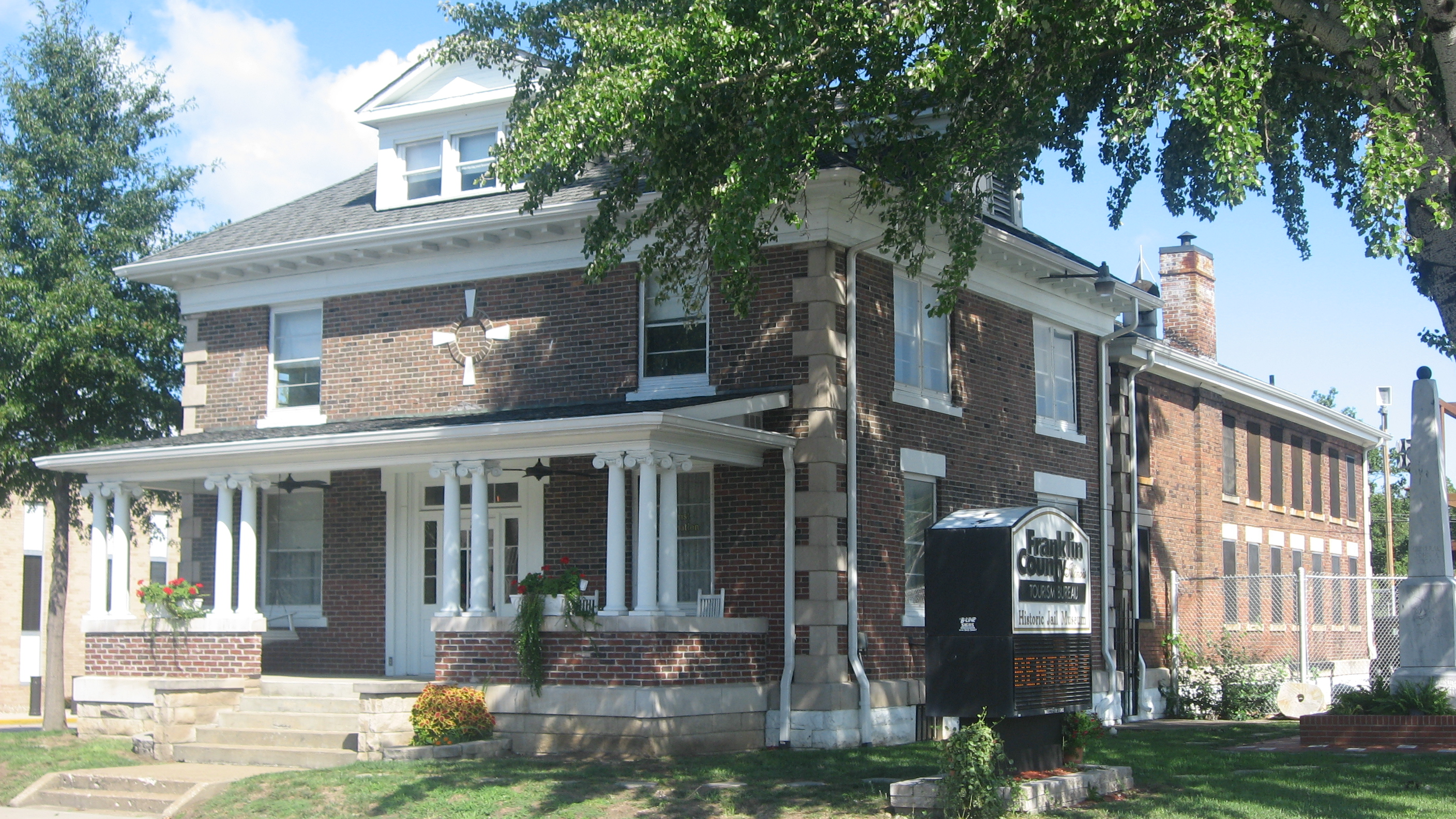 Front and eastern side of the Franklin County Jail, located at 209 W. Main Street (Illinois Route 14) in Benton, Illinois, United States. Built in 1906, it is listed on the National Register of Historic Places.